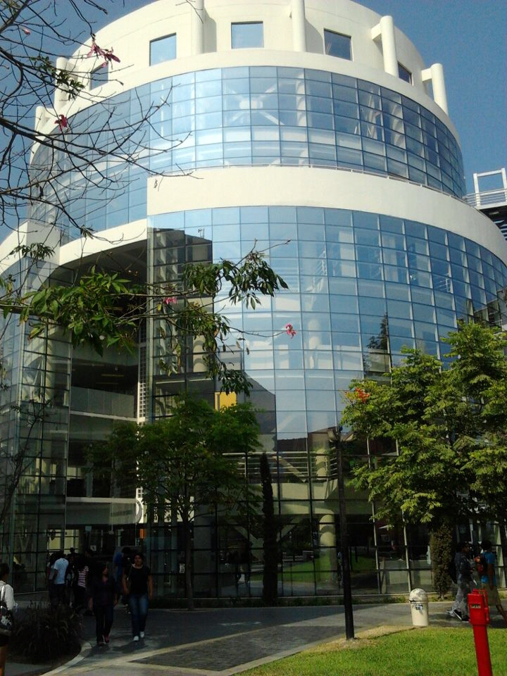 Modern building in UPC campus, Lima, Peru.